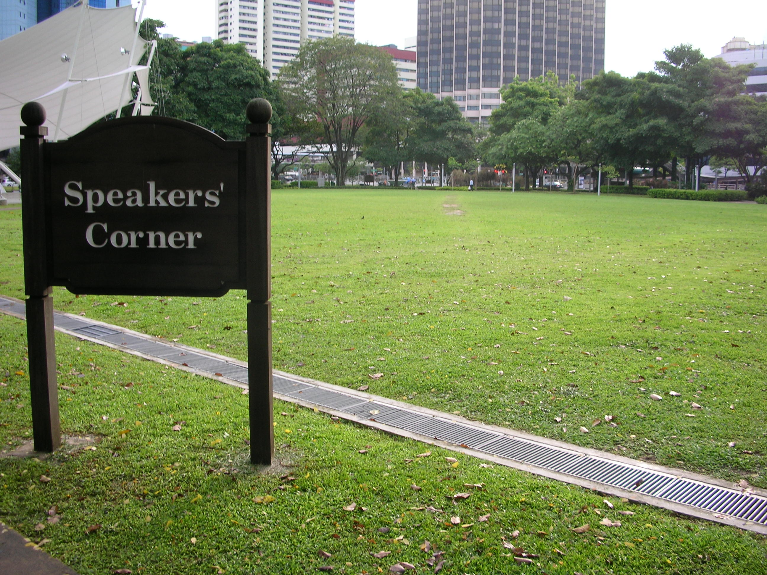 A deserted Speakers' Corner in Singapore.